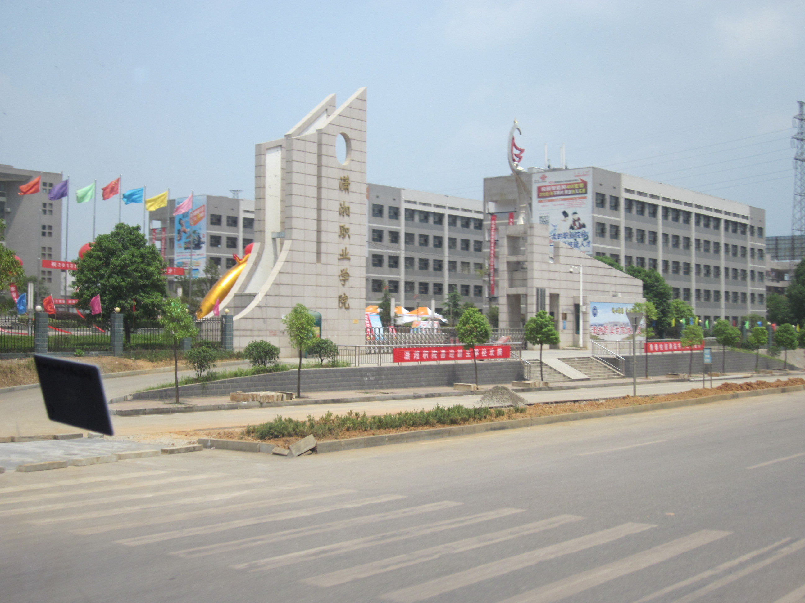 Xiaoxiang Vocational College, located in Loudi City, Hunan Province.